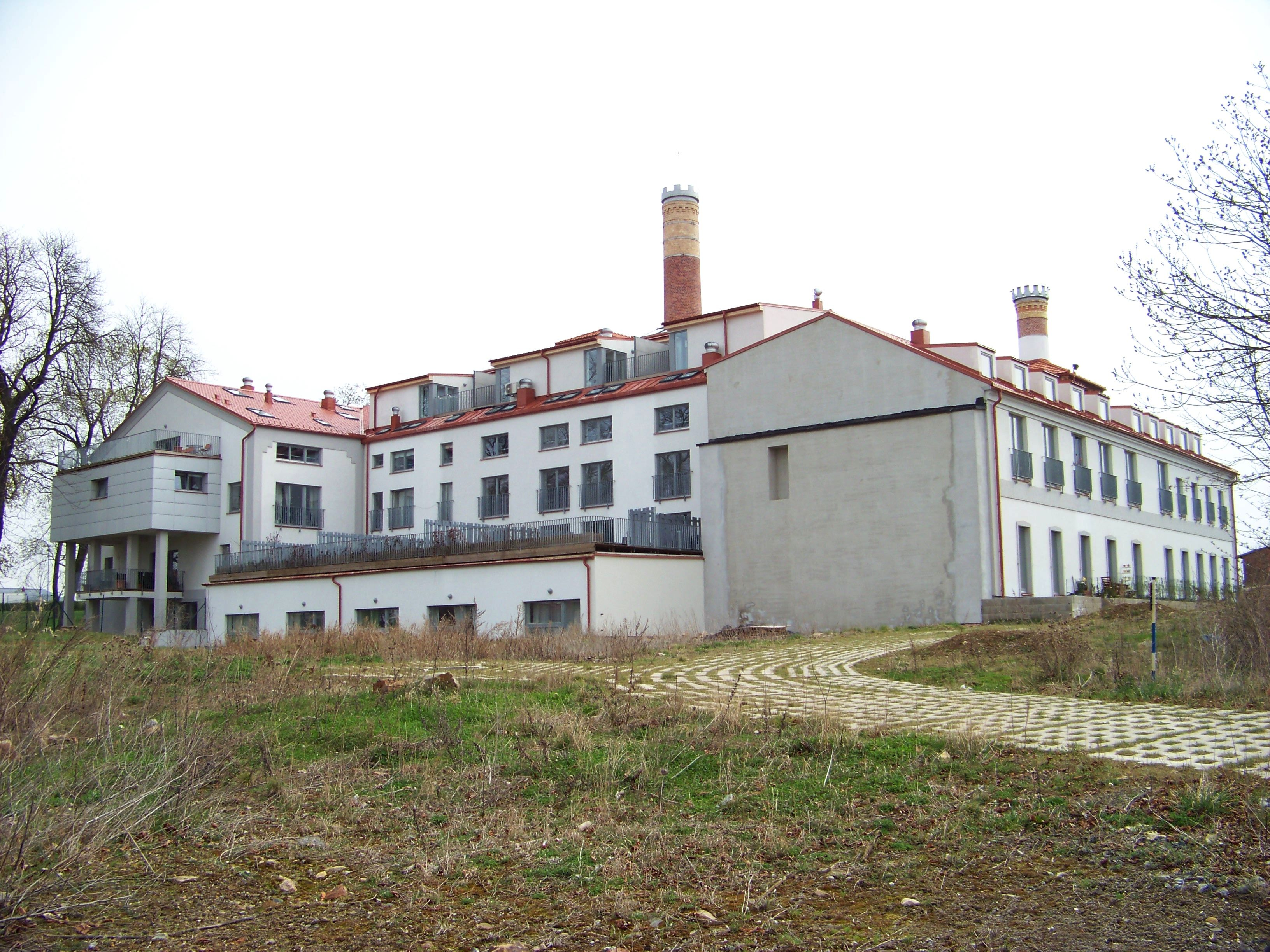 Prague-Lochkov, Czech Republic. U sladovny 196, Lochkov Lofts, a former brewery and malthouse. - Google Maps - Google Earth